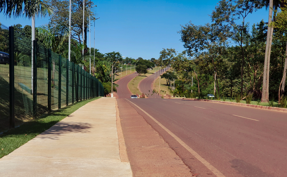 Route PY09 that borders Pedro Juan Caballero city.